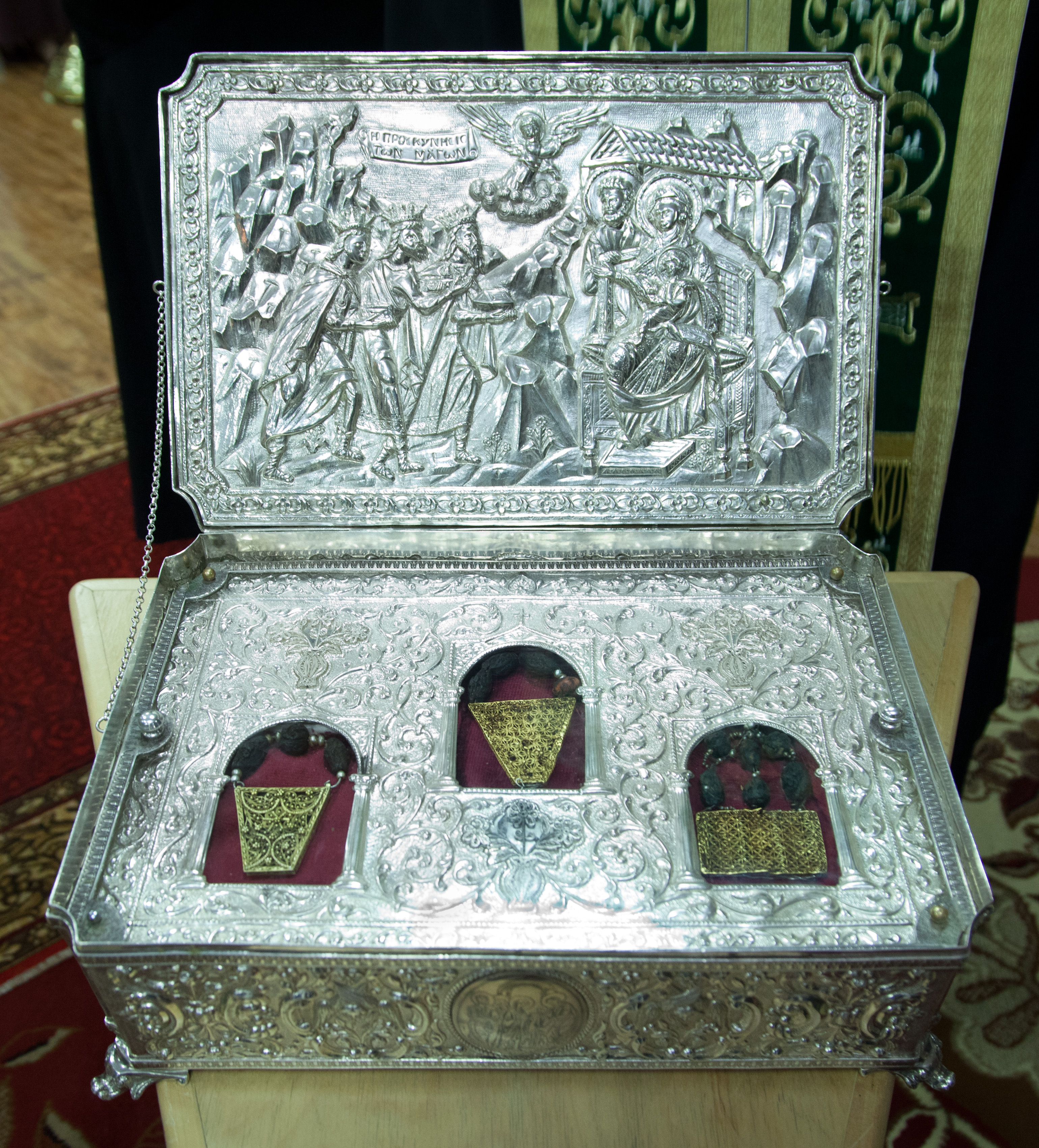 Silver arc with the Gifts of the Magi. Picture was taken in Moscow during the tour of the Gifts from the Monastery of St. Paul of Mount Athos to Russia.